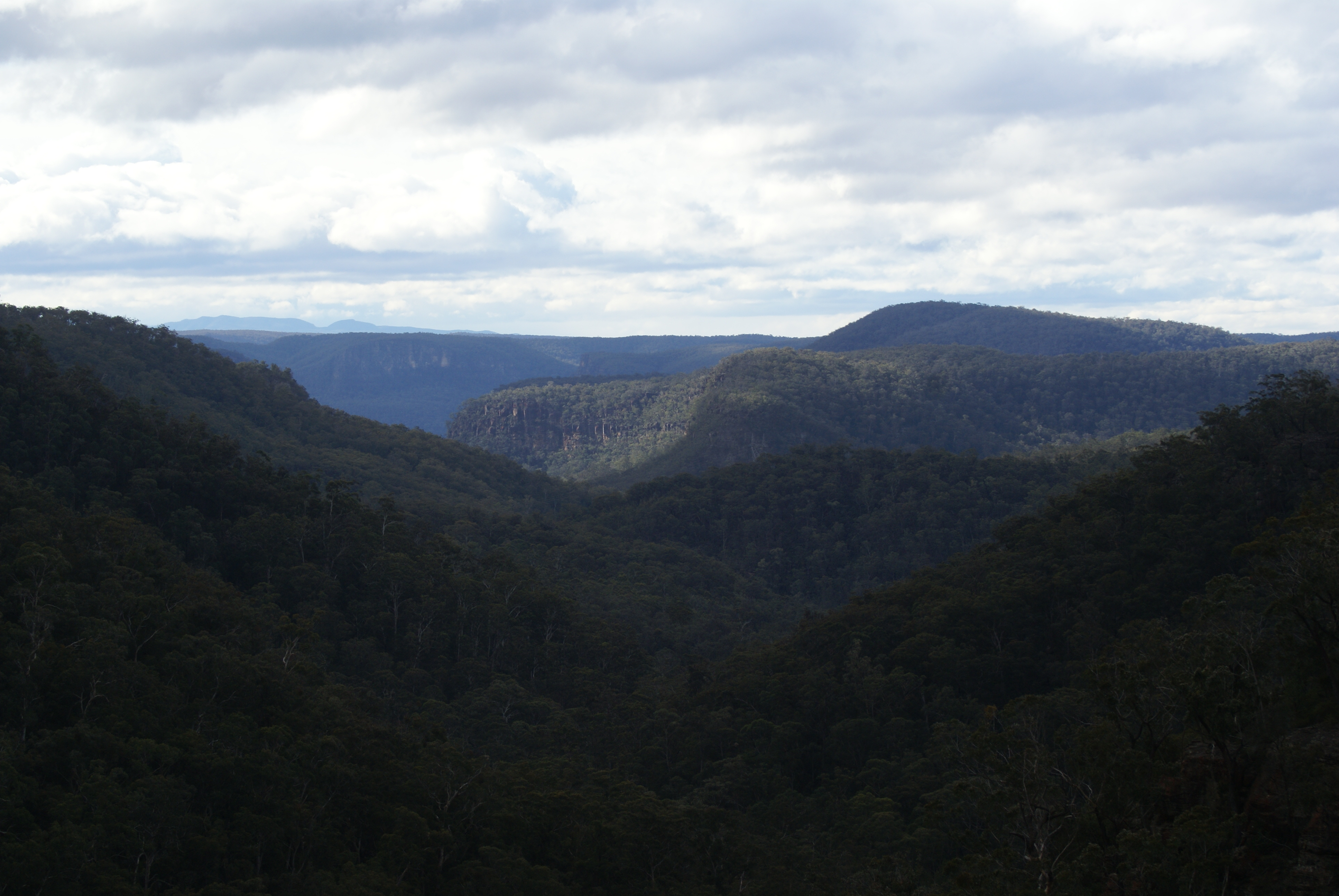 This is the view from Mount Alexandra's Katoomba Lookout towards the Blue Mountains 2012. Katoomba Lookout is accessible from Victoria Street Mittagong, New South Wales, Australia.